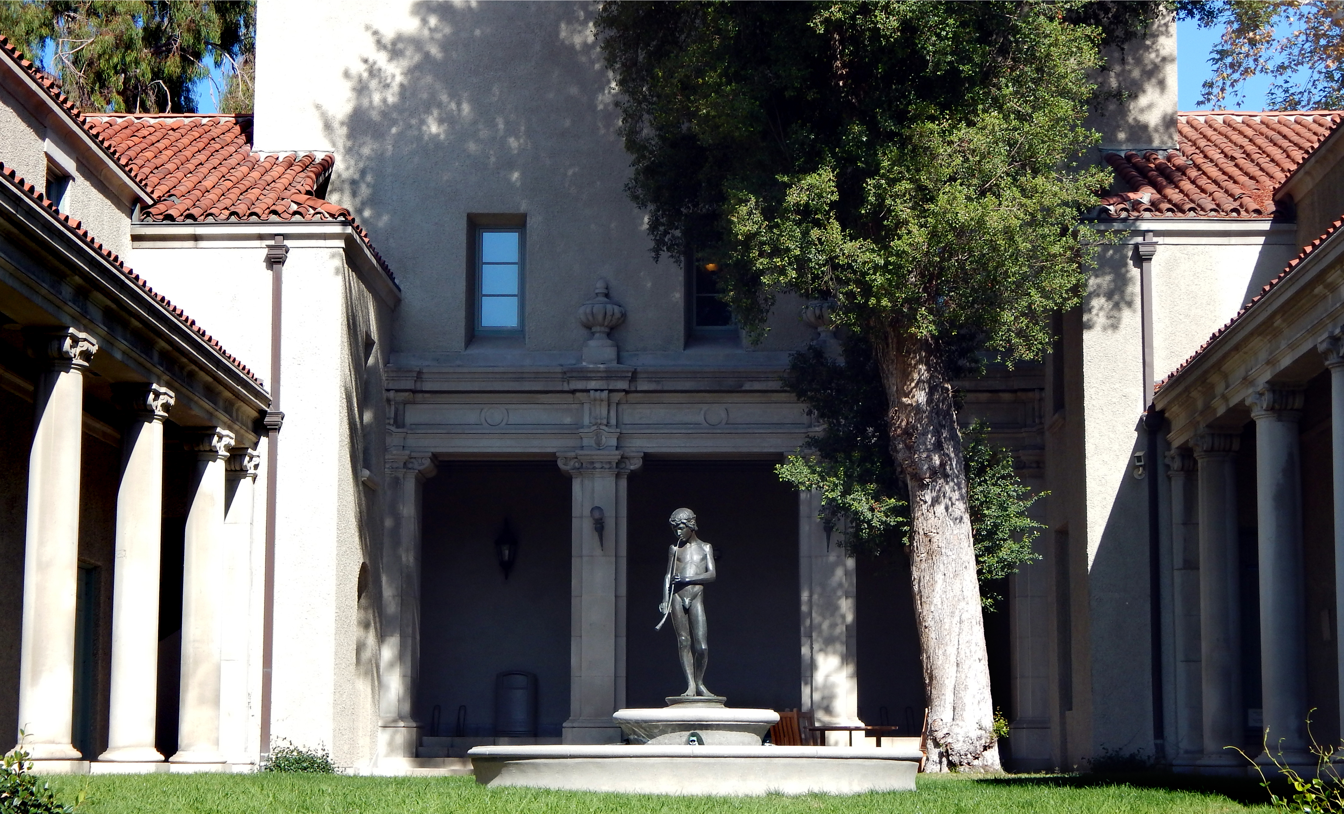 Fountain with sculpture in courtyard, a gift of the Pomona College Class of 1915. After the fountain was damaged in early 2015, the fountain and the sculpture were restored and reinstalled later that same year.